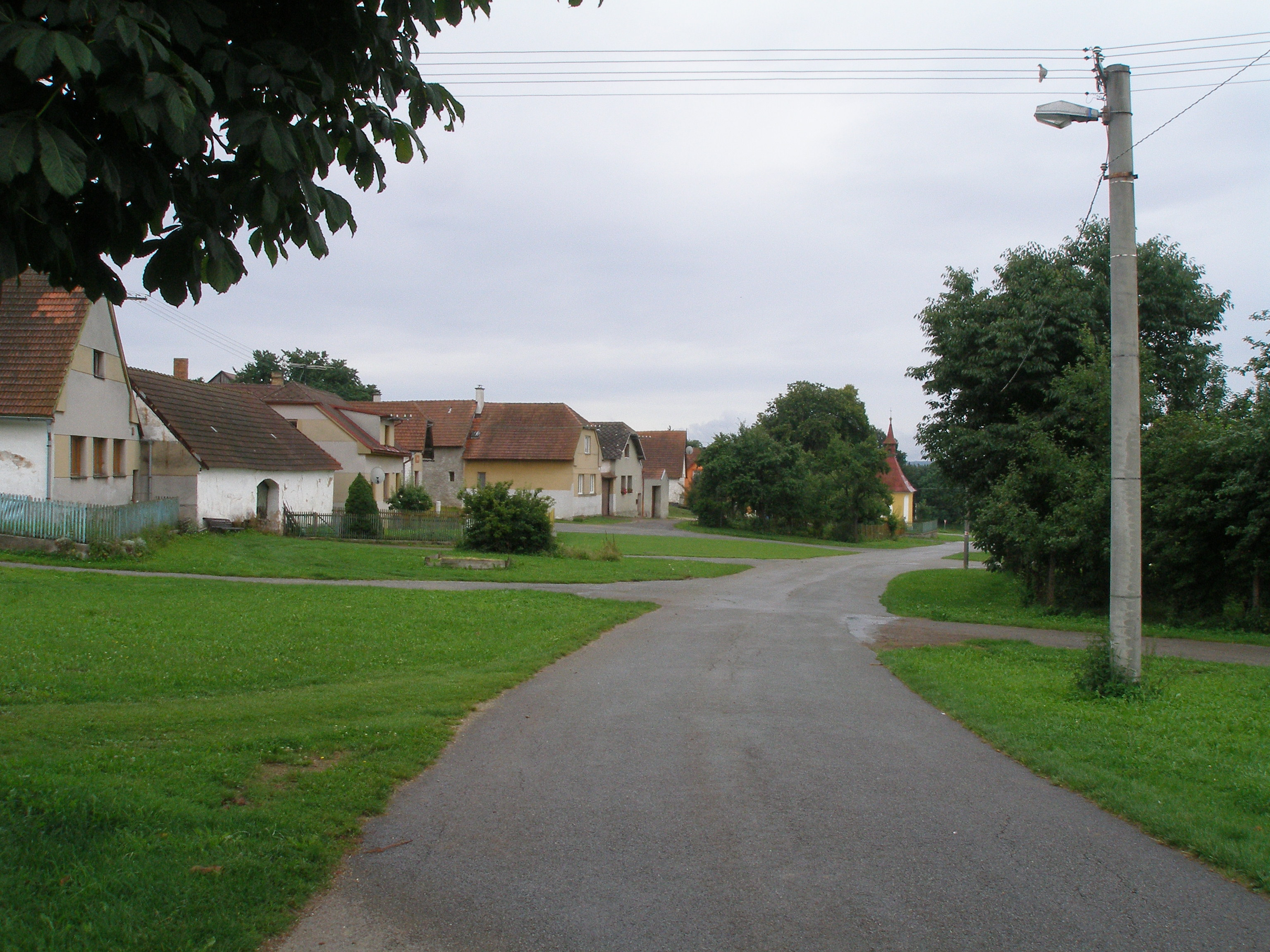 Lesná (Pelhřimov District) - the eastern side of the square